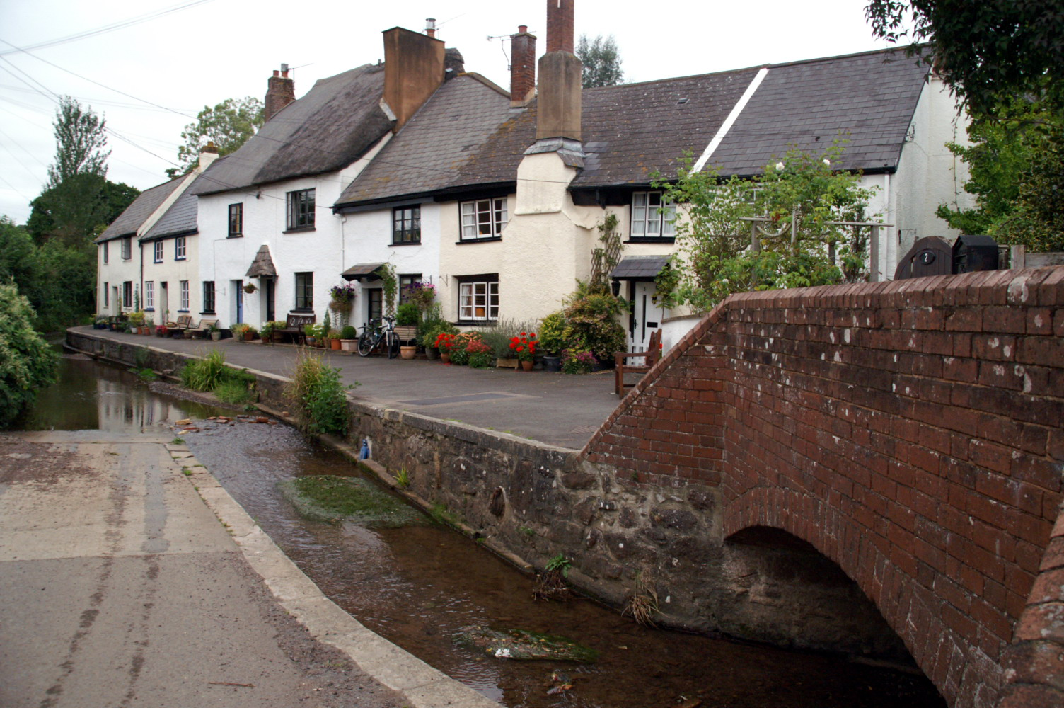 The ford at College Lane, Ide